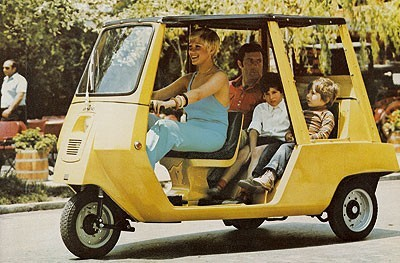 Picture of MEBEA Bingo light "taxi" from my book 'Made in Greece'